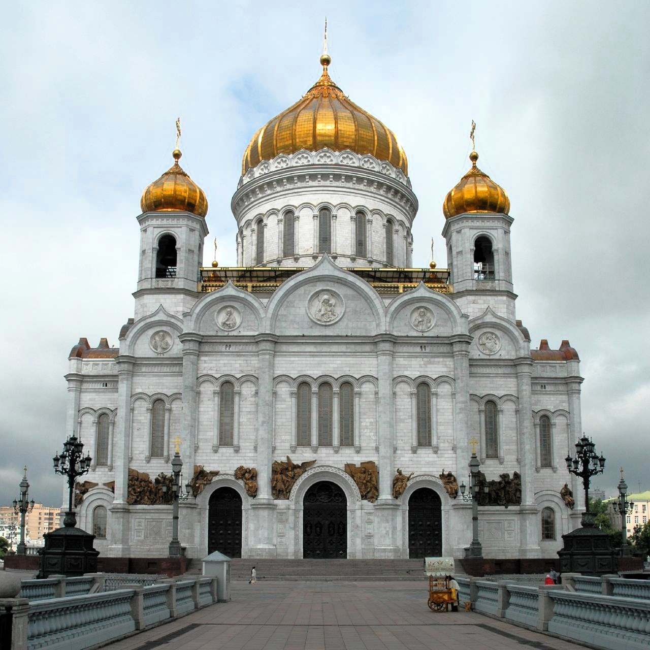 Cathedral of Christ the Saviour Moscow) in Moscow